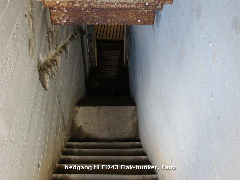 Stairs into flak bunker Fl243 on Fanø, Denmark